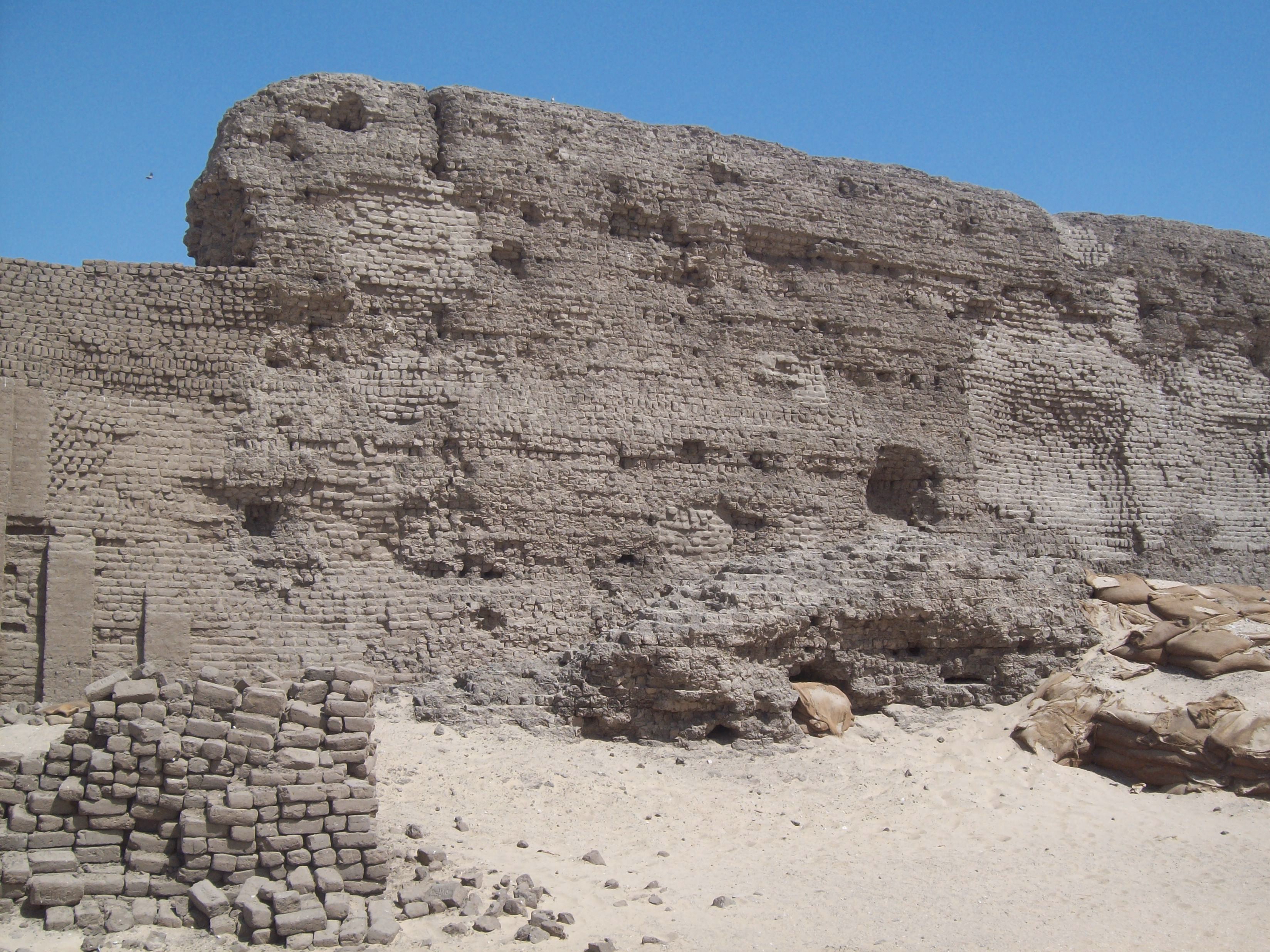 Abydos /əˈbaɪdɒs/ is one of the oldest cities of ancient Egypt, and also of the eighth nome in Upper Egypt, of which it was the capital city. It is located about 11 kilometres (6.8 miles) west of the Nile at latitude 26° 10' N, near the modern Egyptian towns of el-'Araba el Madfuna and al-Balyana. The city was called Abdju in the ancient Egyptian language (ꜣbdw or AbDw as technically transcribed from hieroglyphs) meaning "the hill of the symbol or reliquary", a reference to a reliquary in which the sacred head of Osiris was preserved.